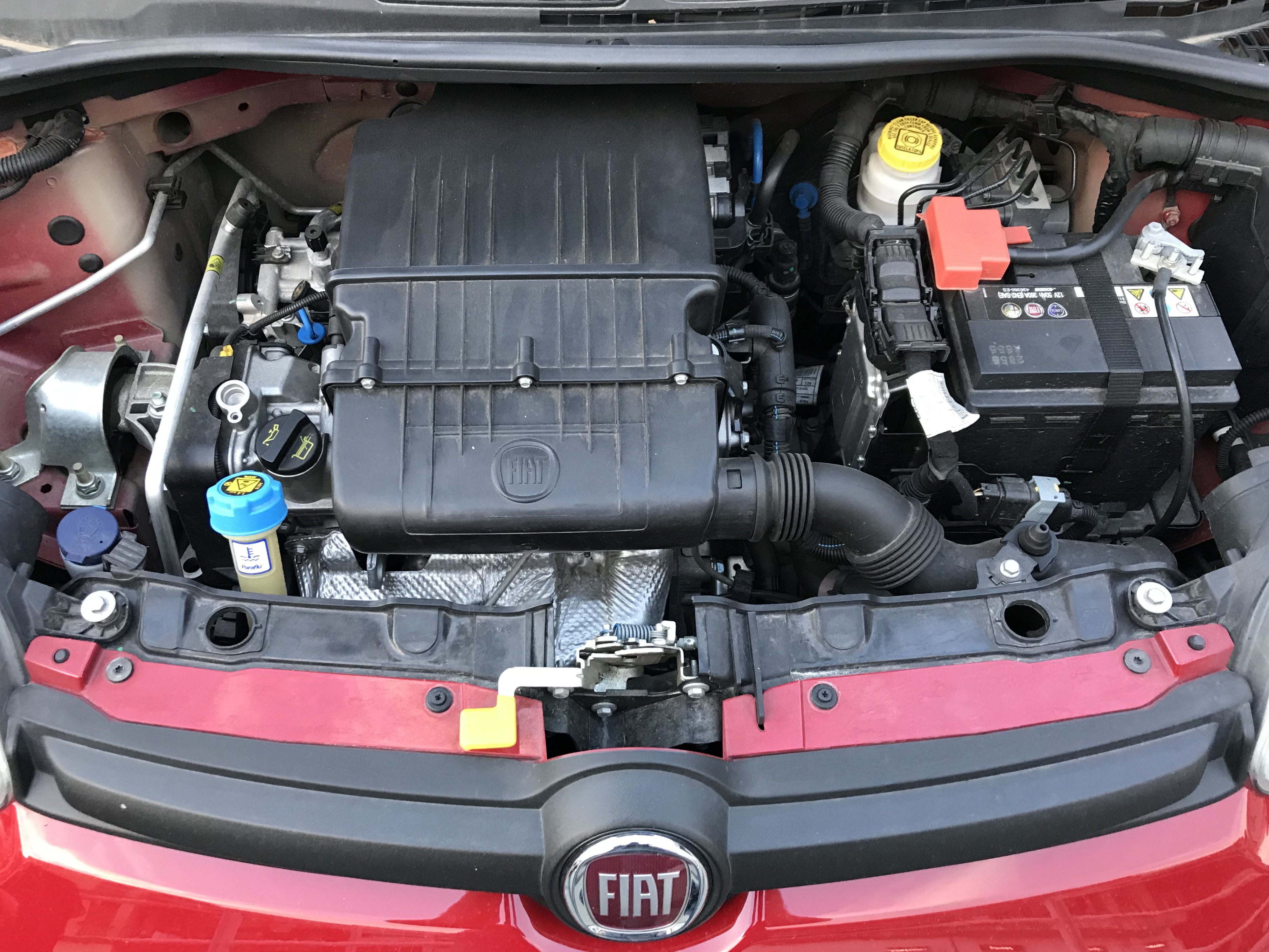 Fiat Panda 1.2 Fire engine